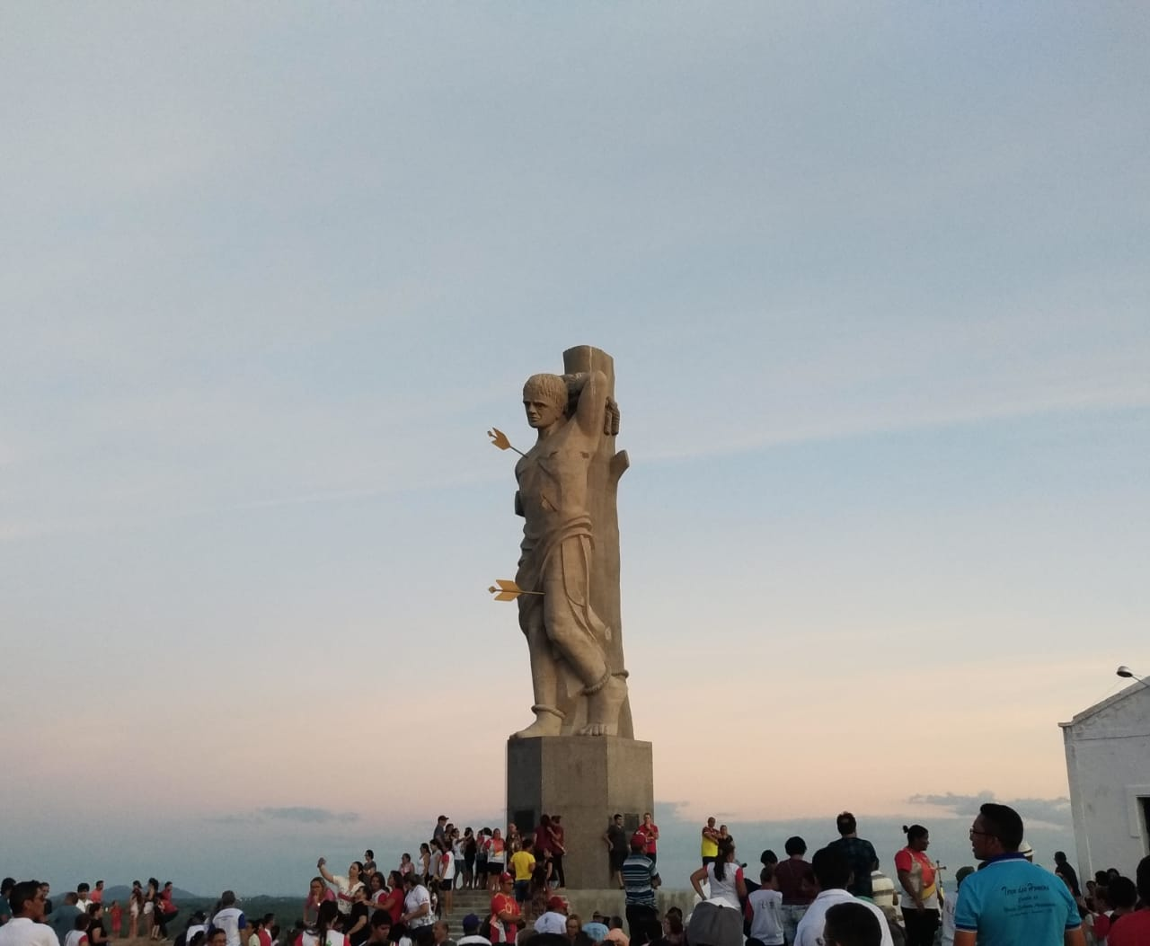 Statue of Saint Sebastian in the stone of Saint Sebastian in Ipaumirim, tourist point of the city, where the pilgrimage takes place on January 20 from 1919.